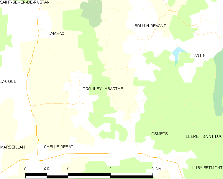 Map of French municipality